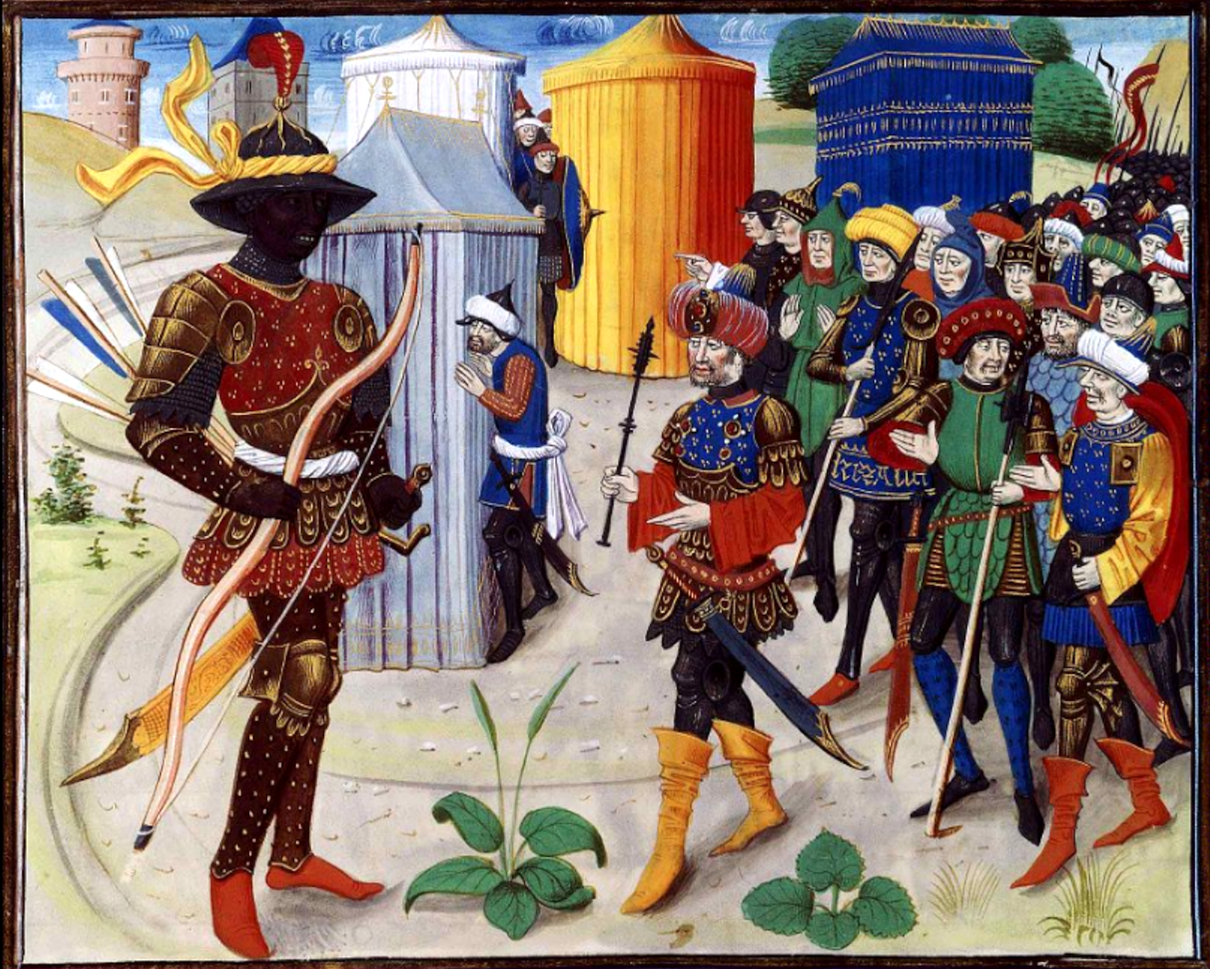 The Saracen emir Vivien send the black wizard Noiron to fight Maugis in Aigremont